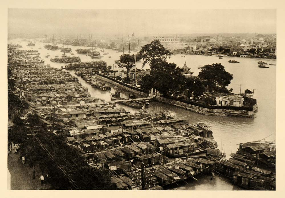 The Hoi Chu Park in Canton, China